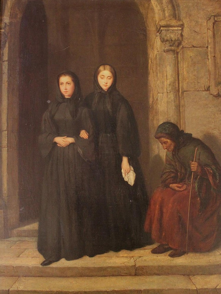 Untitled